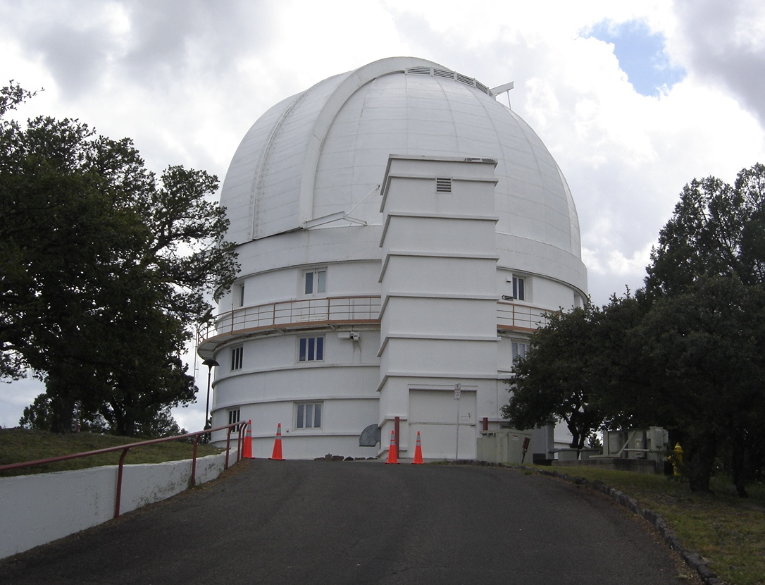 The Otto Stuve Telescope bldg, McDonald Observatory, Texas.